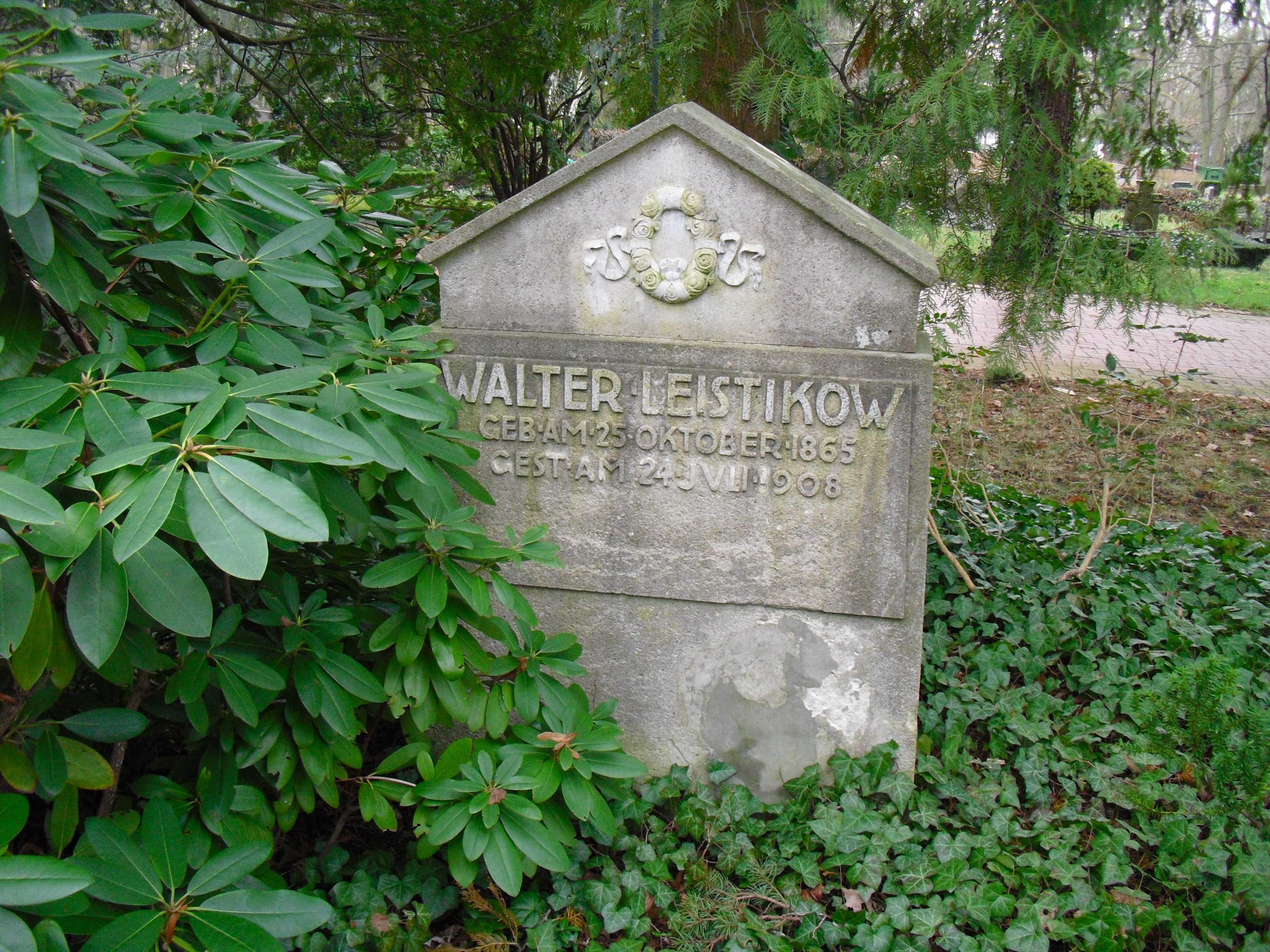 Honor grave of the painter Walter Leistikow in Friedhof Steglitz. The architect was Franz Seeck